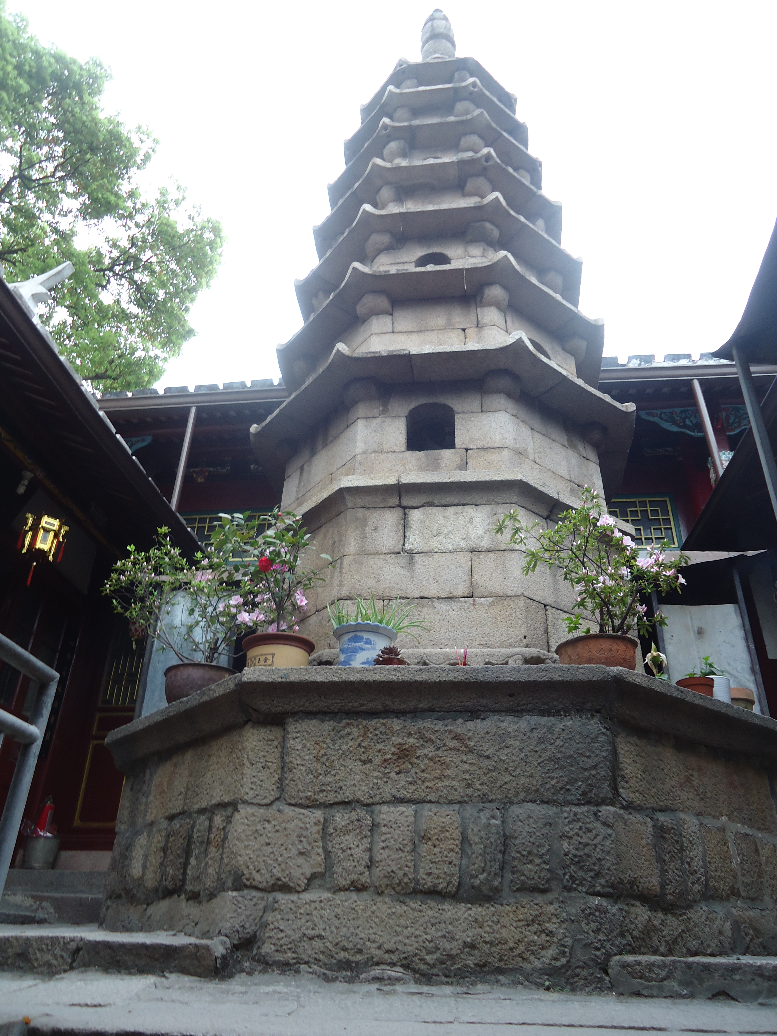 Stone Tower in Fuzhou Jinshan Temple,taken in March 21 ,2015.